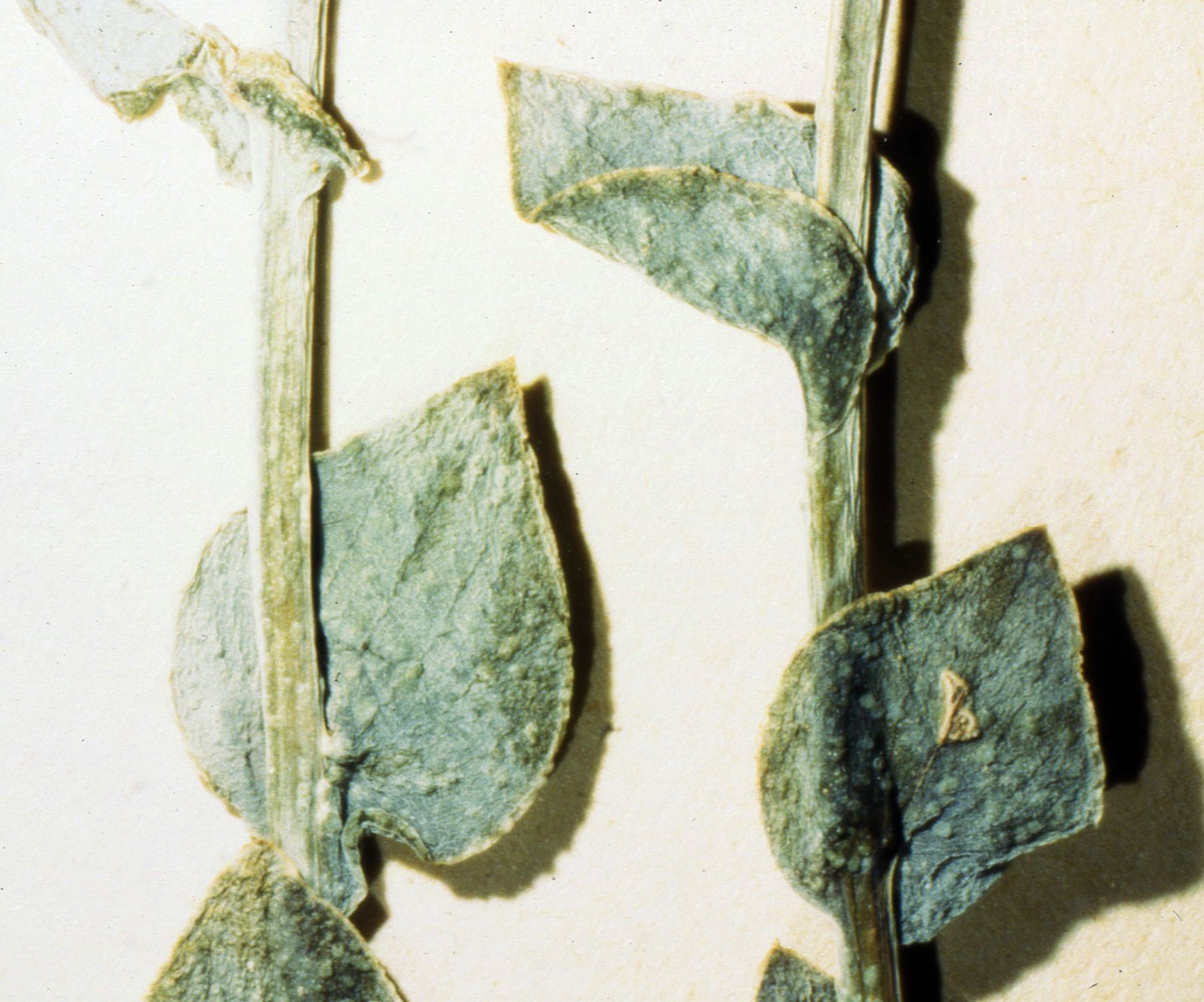 Leaves of Halothamnus auriculus. Herbarium specimen collected in Afghanistan by D. Podlech & K. Jarmal No. 28923